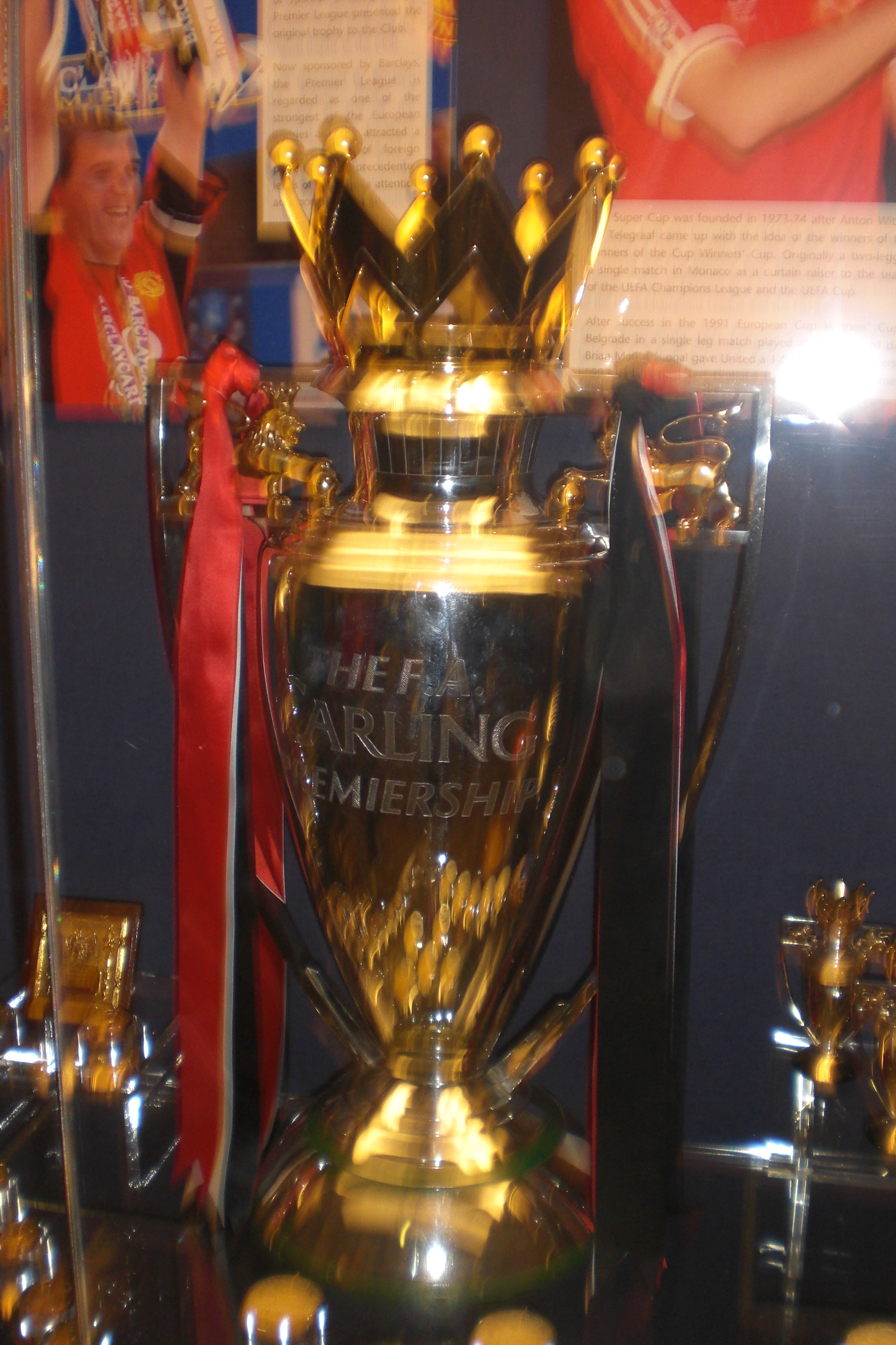 Newspaper from after the Munich air disaster which killed 8 players at Manchester United 6th february 1958, found at United Museum, Old Trafford